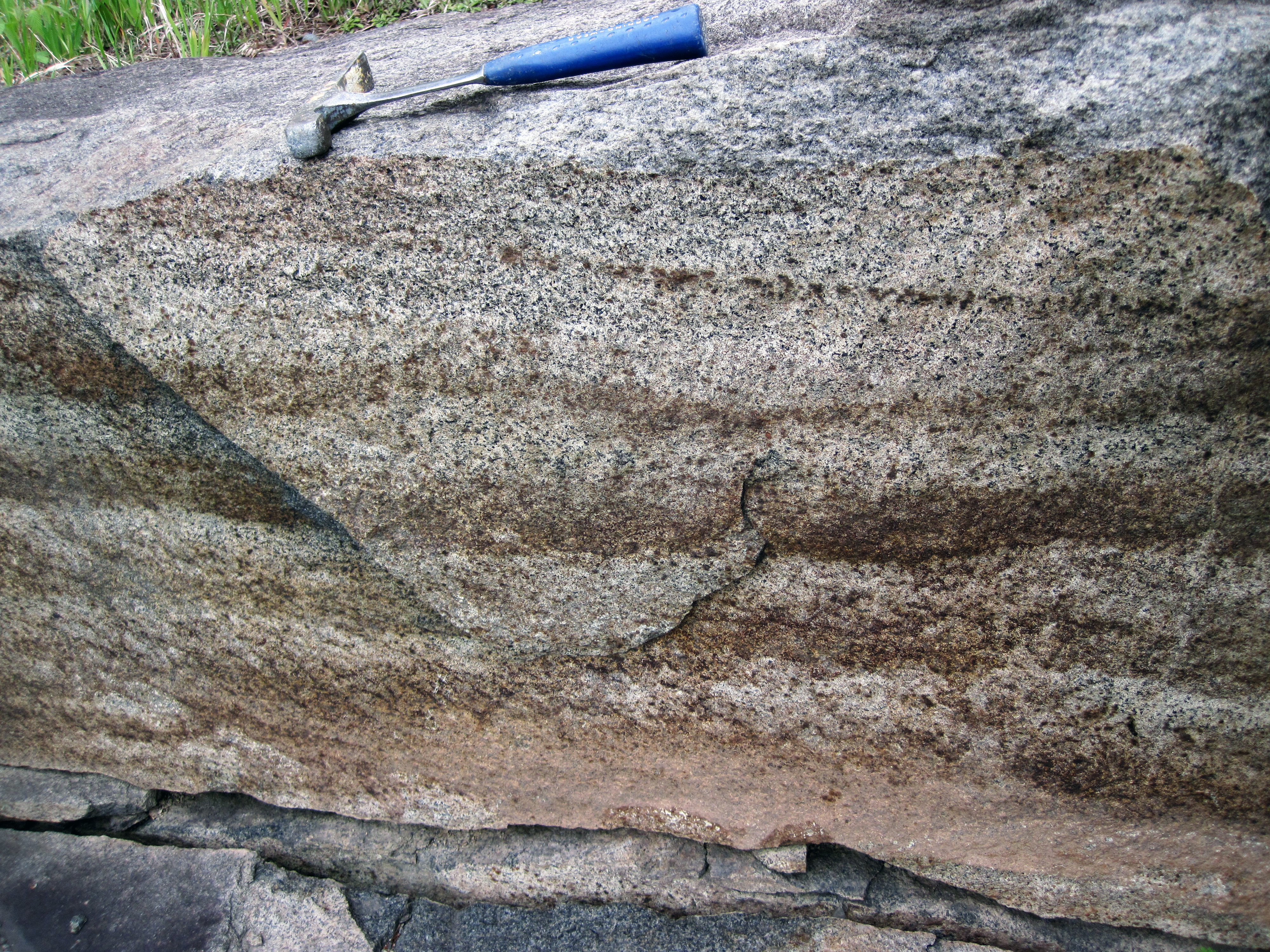 Layered gabbros of the troctolitic series in the Duluth Complex at a roadcut next to parking lot for the Thomson Hill Information Center, Skyline Parkway, northern side of Interstate 35, just west of the Route 2-Interstate 35 intersection, west of Duluth, Minnesota, USA. (Geology hammer for scale). The gabbro formed 1099 million years ago. This is gabbro, a mafic, phaneritic, intrusive igneous rock composed principally of plagioclase feldspar and pyroxene. This rock is part of the widespread Duluth Complex, a ~1.1 billion year old suite of igneous rocks in northeastern Minnesota that is associated with volcanism in the Lake Superior segment of the ancient Mid-Continent Rift System. Layering is not commonly seen in intrusive igneous rocks. These layered gabbros are the result of repeated episodes of crystal settling in a magma chamber.